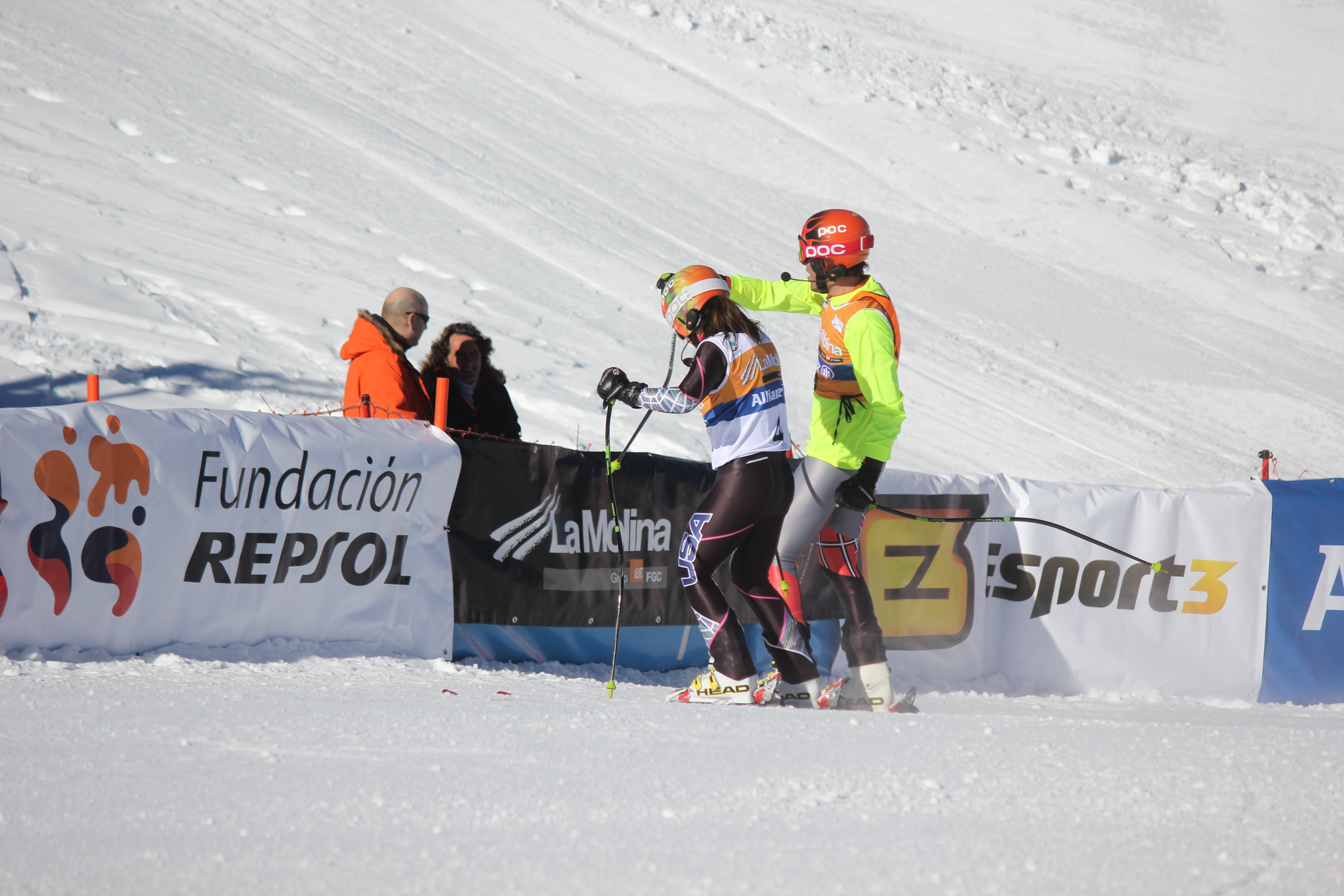 2013 IPC Alpine World Championships at La Molina in Spain. Day 1. Downhill final. Skier Danelle Umstead and guide Robert Umstead. Danelle Umstead is B2 from the United States.